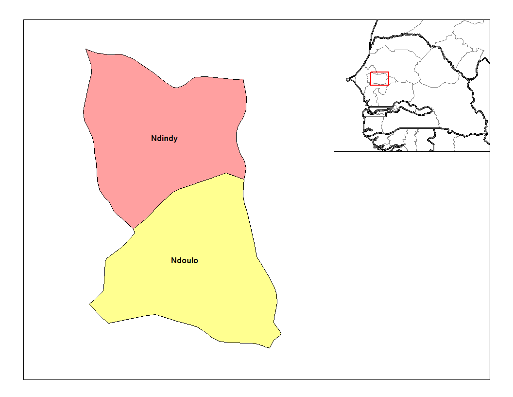 Map of the arrondissements of Diourbel department in Senegal.